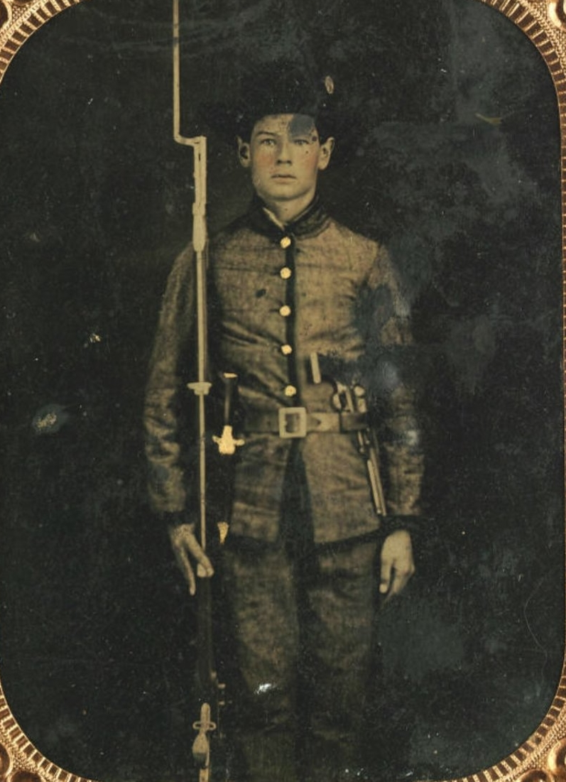 Pvt. William J. Oliphant, Co. G, 6th Texas Infantry Regiment, DeGolyer Library, Southern Methodist University